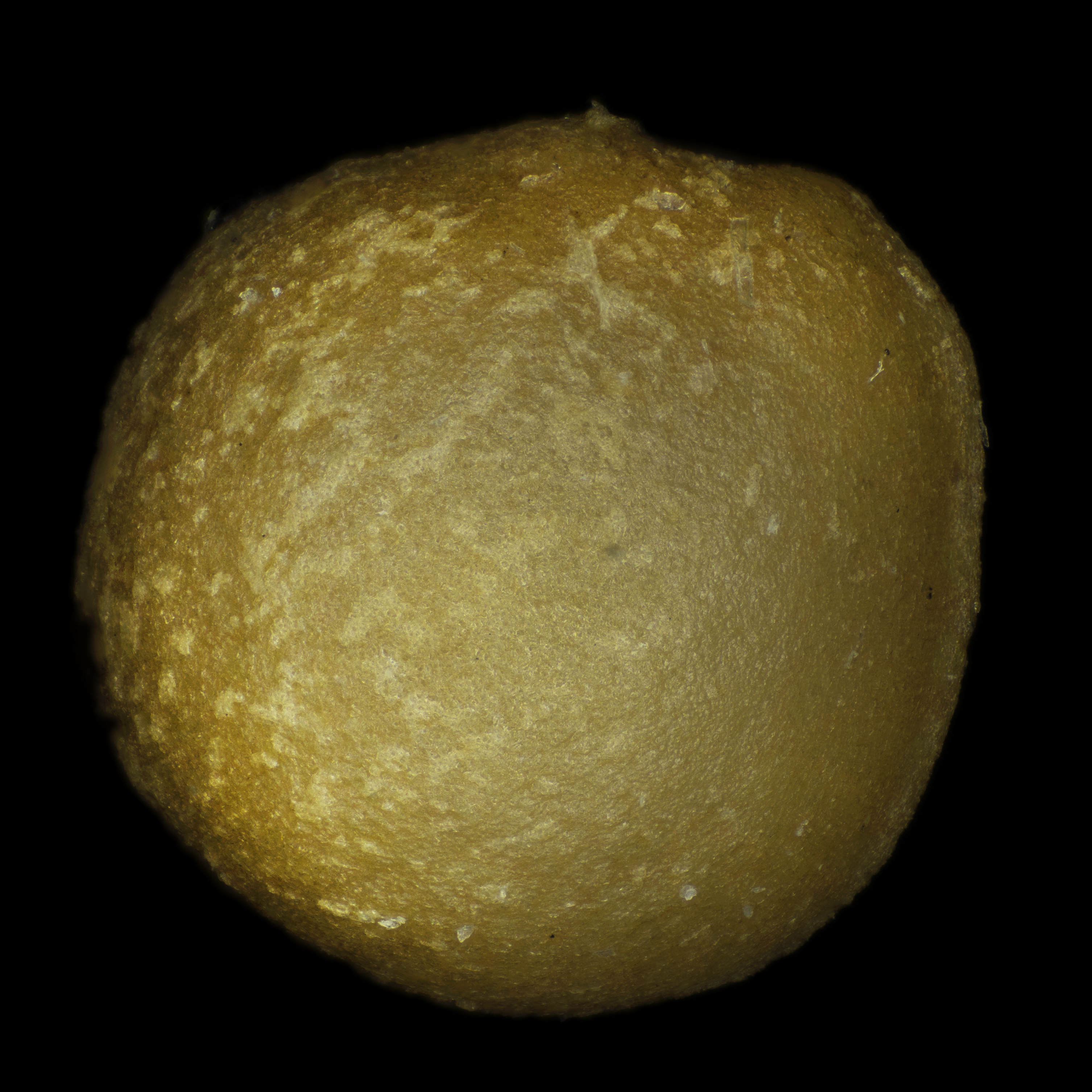 Ficus carica seed.